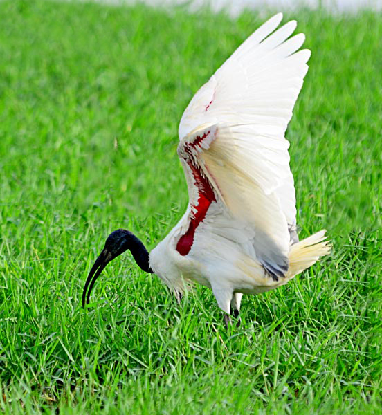 Black-headed Ibis